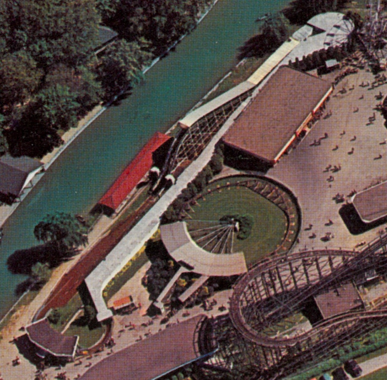 Comet Hollow approximately 1960. Featured rides are the Mill Chute, Bug, Skooter and Comet.